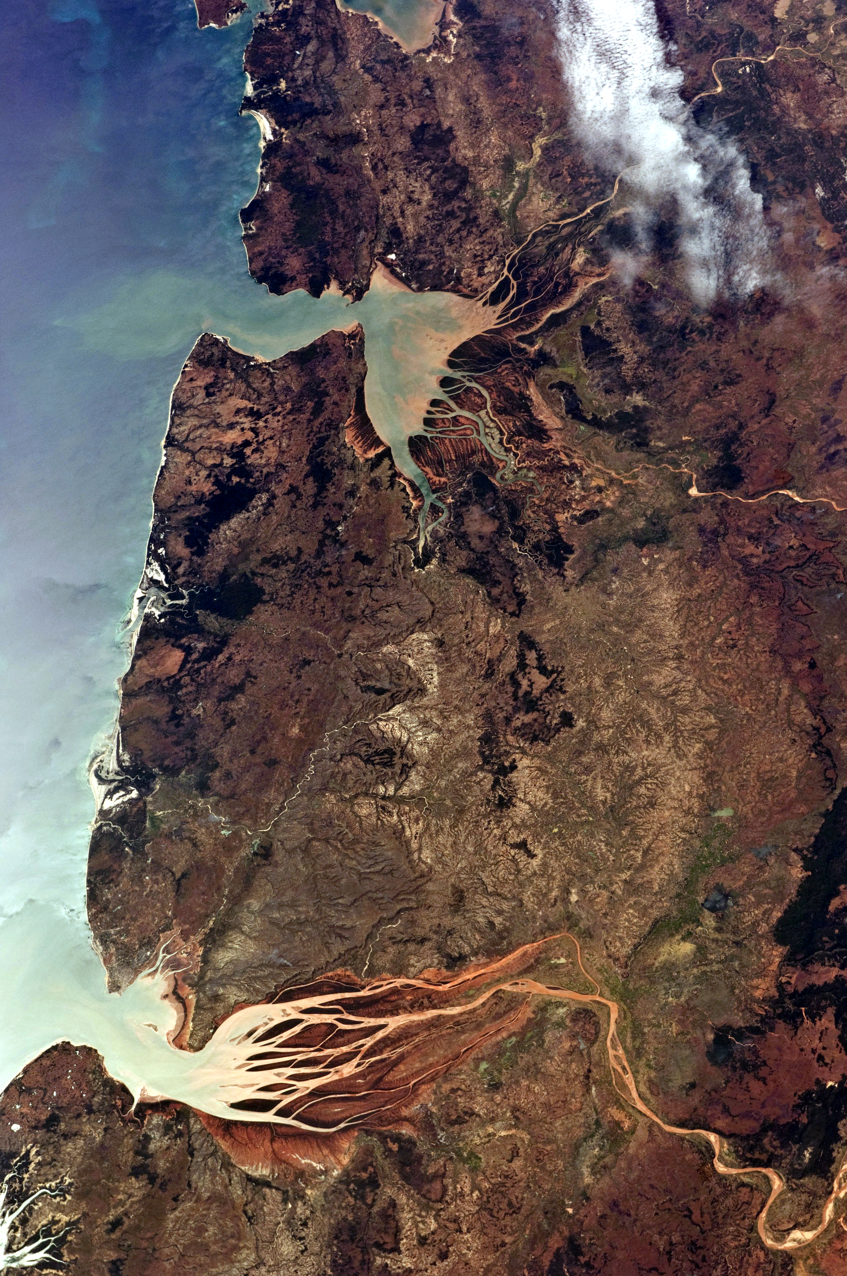 This astronaut photograph, taken from the International Space Station, highlights two estuaries along the north-western coastline of Madagascar. Bombetoka Bay (image upper left) is fed by the Betsiboka River, and is a frequent subject of astronaut photography due to its striking red floodplain sediments. Mahajamba Bay (image right) is fed by several rivers, including the Mahajamba and Sofia.